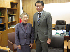 Sadako Ogata, President of Japan International Cooperation Agency, met Ikuo Yamahana, Parliamentary Secretary for Foreign Affairs, at the Headquarters of the Ministry of Foreign Affairs in Chiyoda Ward, Tōkyō Metropolis on November 19, 2010.